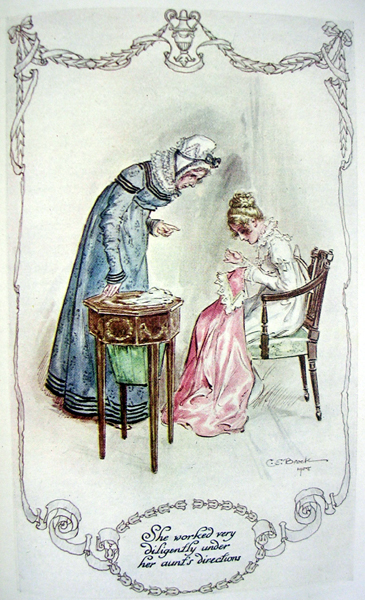 Illustration for ch.18 of Mansfield Park, in the Series of English Idylls, published by J.M Dent & Co. (London) and E.P. Dutton & Co. (New York) : She worked very diligently under her aunt's directions.